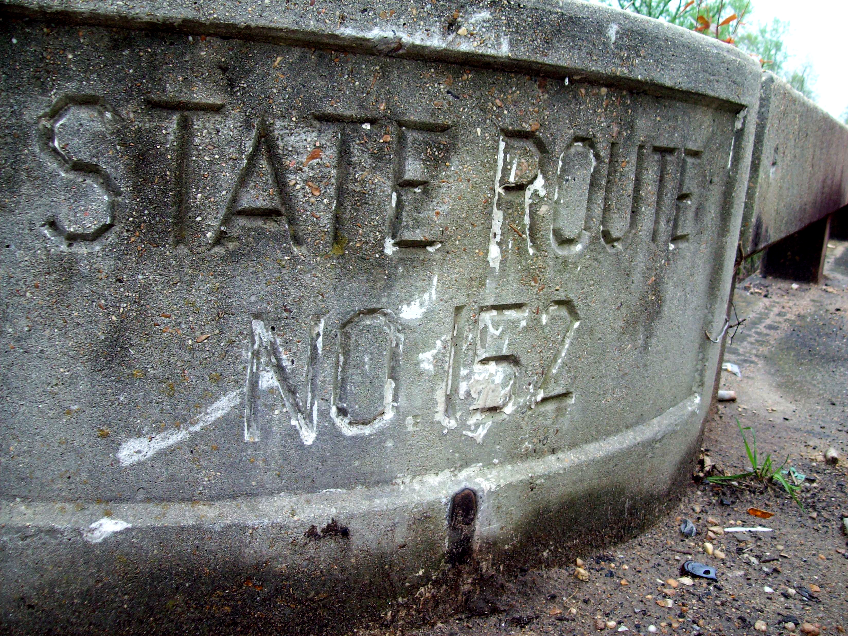 A photo of the endcap for SR 152 (Louisiana), now LA 19